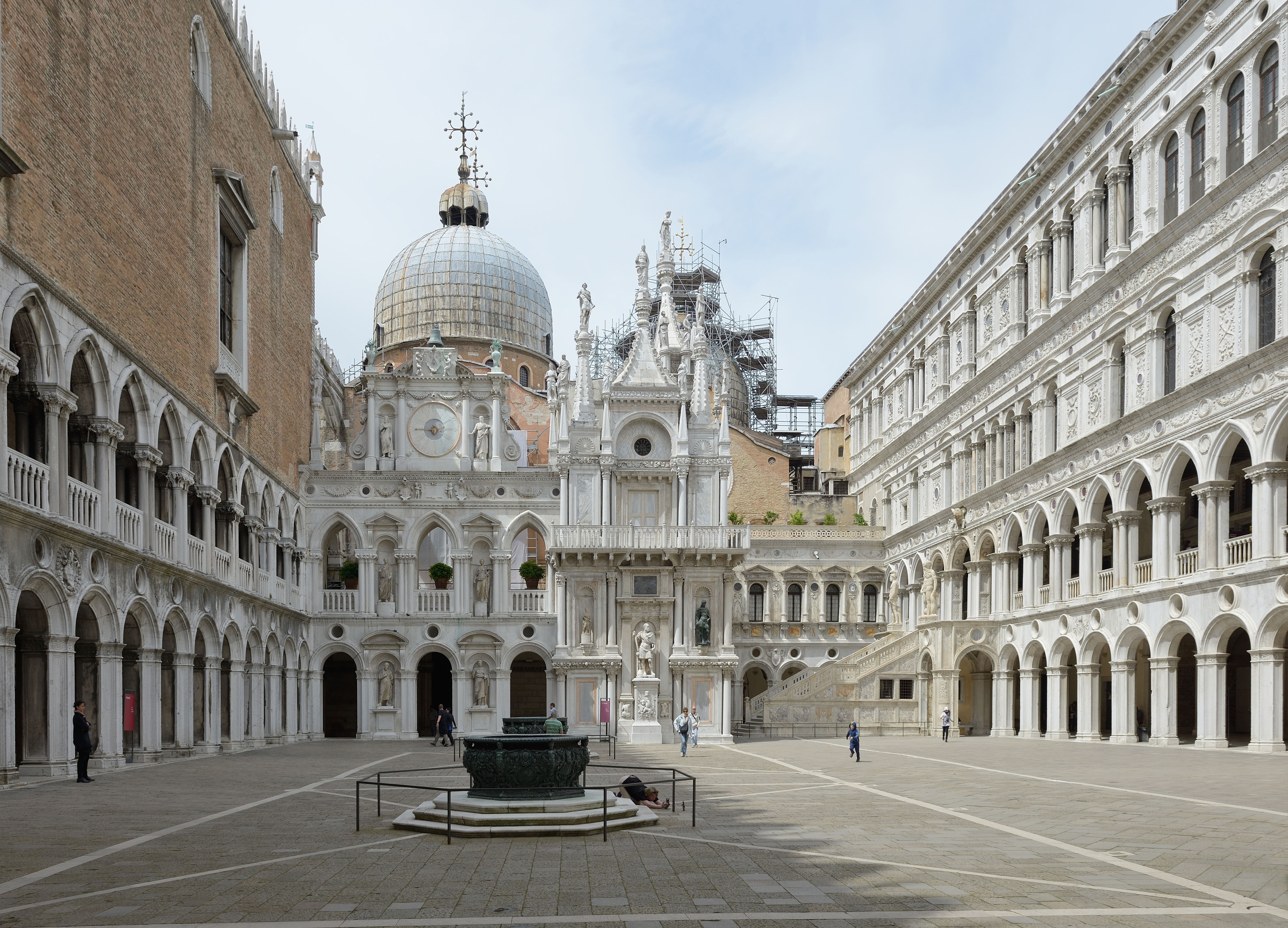 The Basilica of San Marco seen from the Doge's Palace courtyard in Venice